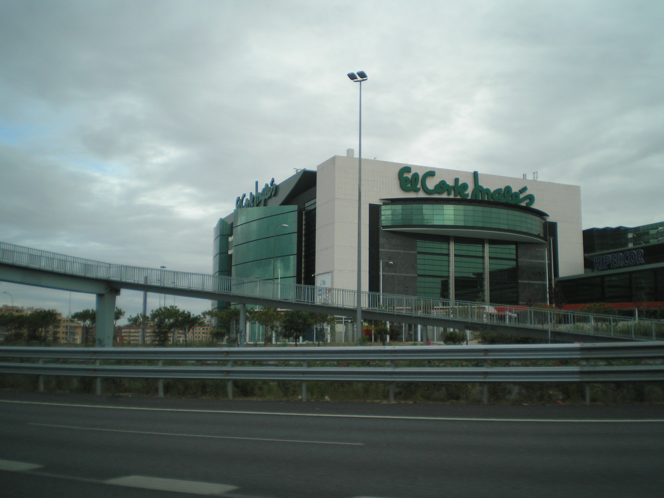 El Corte Inglés in Sanchinarro, Madrid.